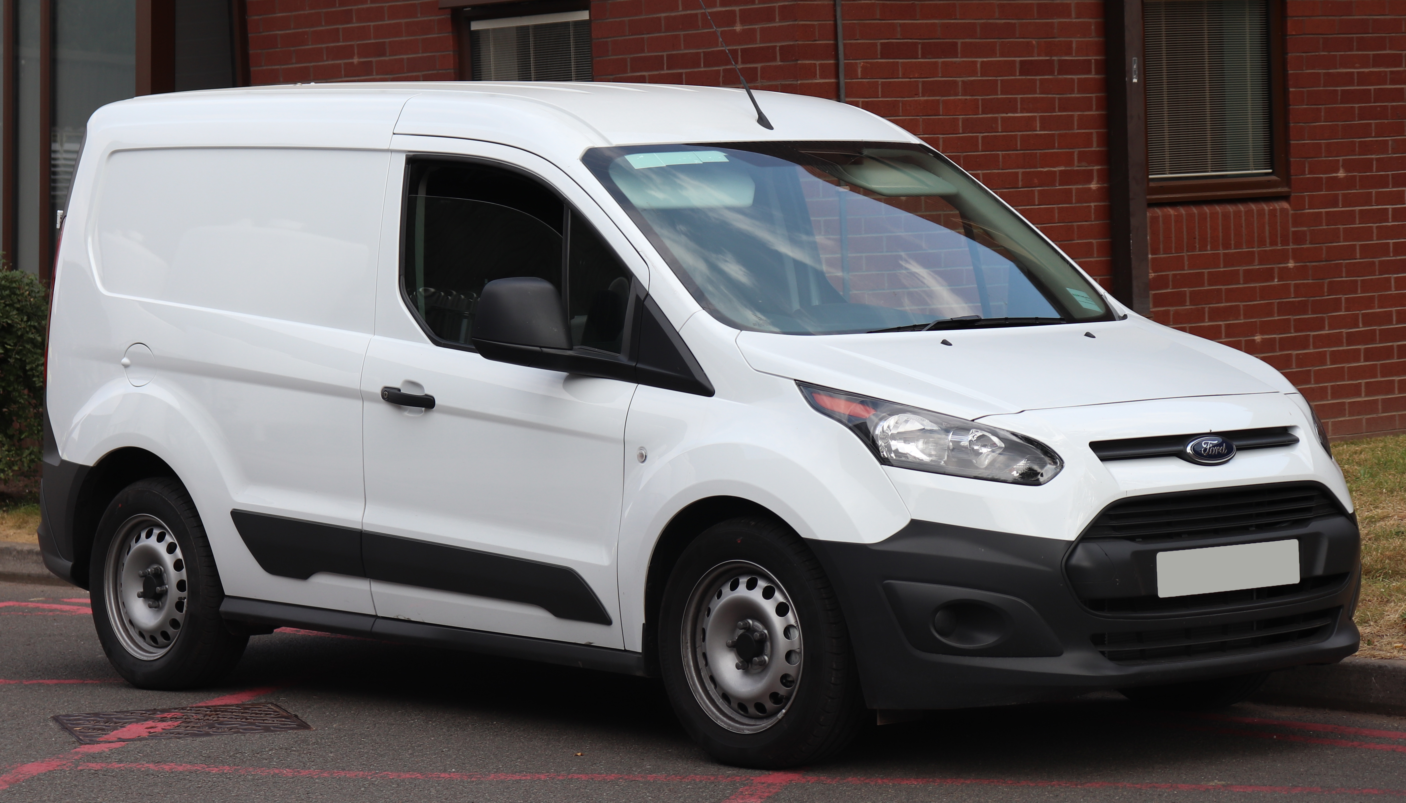 2018 Ford Transit Connect 200 1.5 Front Taken in Warwick